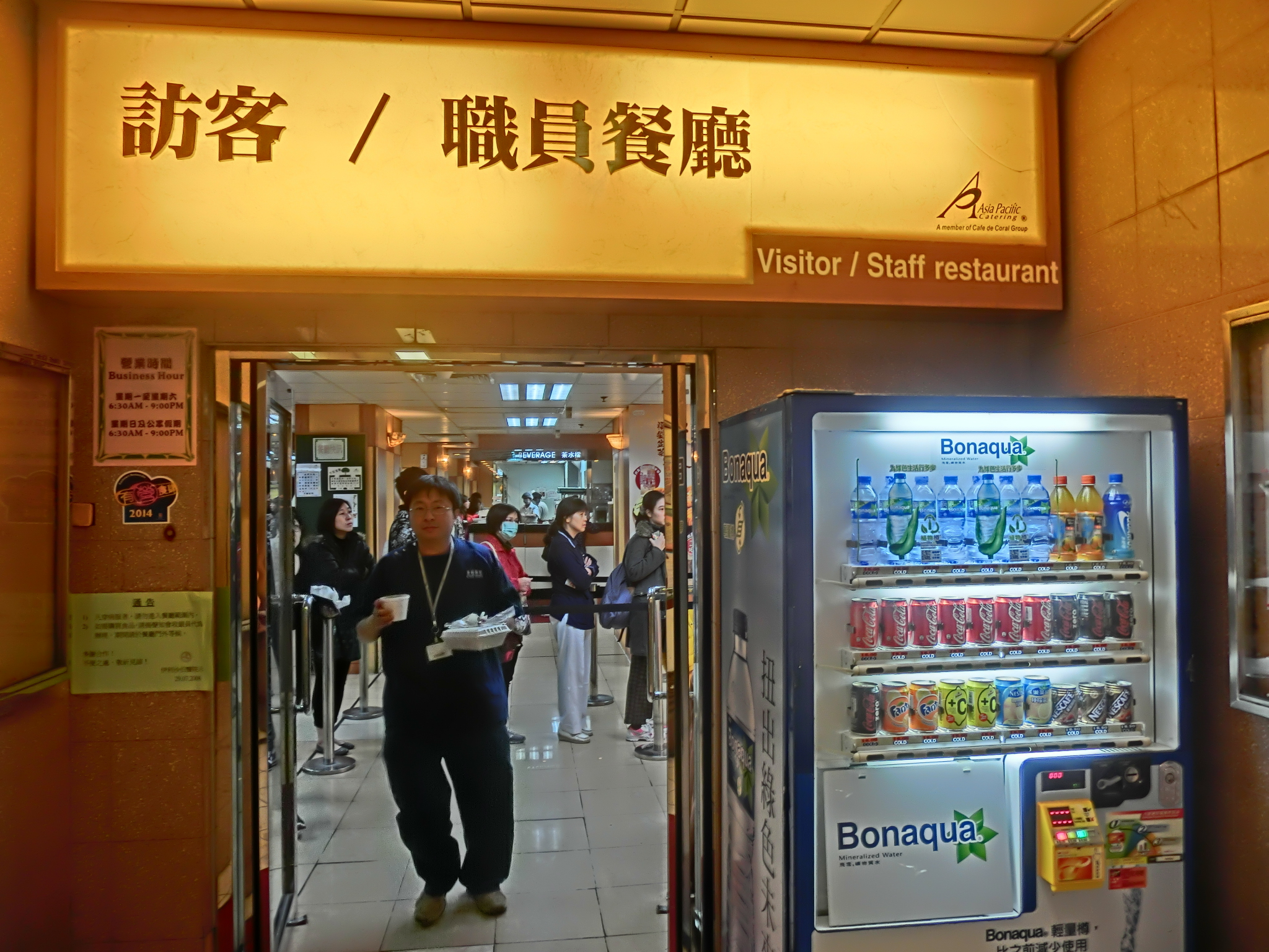 伊利沙伯醫院, Restaurant in Queen Elizabeth Hospital, King's Park, Yau Ma Tei, Hong Kong